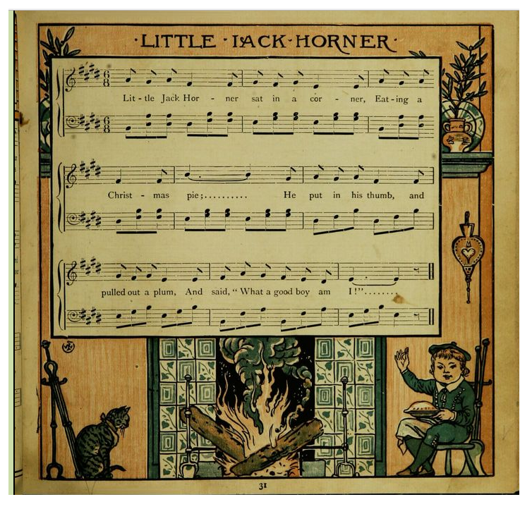 The Baby's Opera: A Book of Old Rhymes with New Dresses by Walter Crane; The Music by the Earliest Masters; Engraved, & Printed in Colours by Edmund Evans, Publisher: London & New York, George Rutledge & Sons